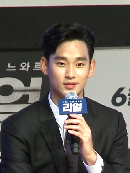 Kim Soo-hyun in May 2017